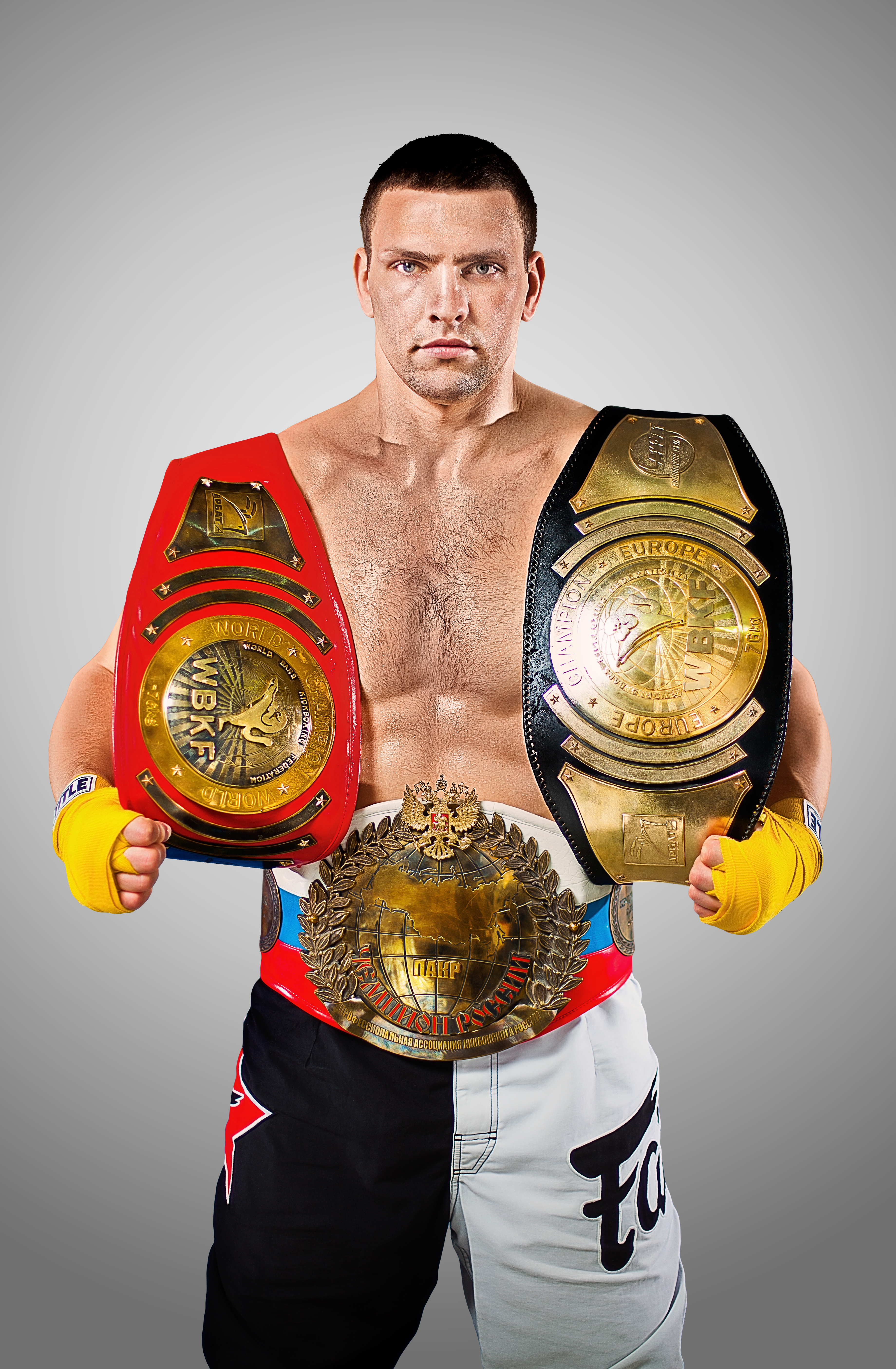 Belts